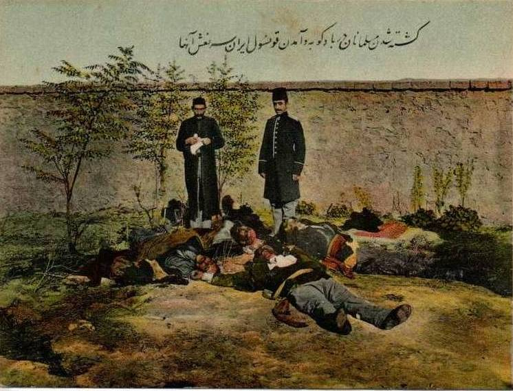 Les Musulmans assassines a Bacou et le consul qui vient voir leurs cadavres.